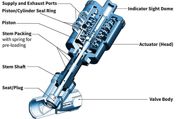 Angle Valve Cross Section